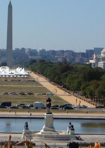 Ulysses S. Grant Memorial and National Mall from US Capitol. Taken by User:Alma mater August 2005, with GFDL license allows anyone to use this picture for any purposes. Surrounded by four lion sculptures, the Ulysses S. Grant Memorial is looking toward Washington Monument.